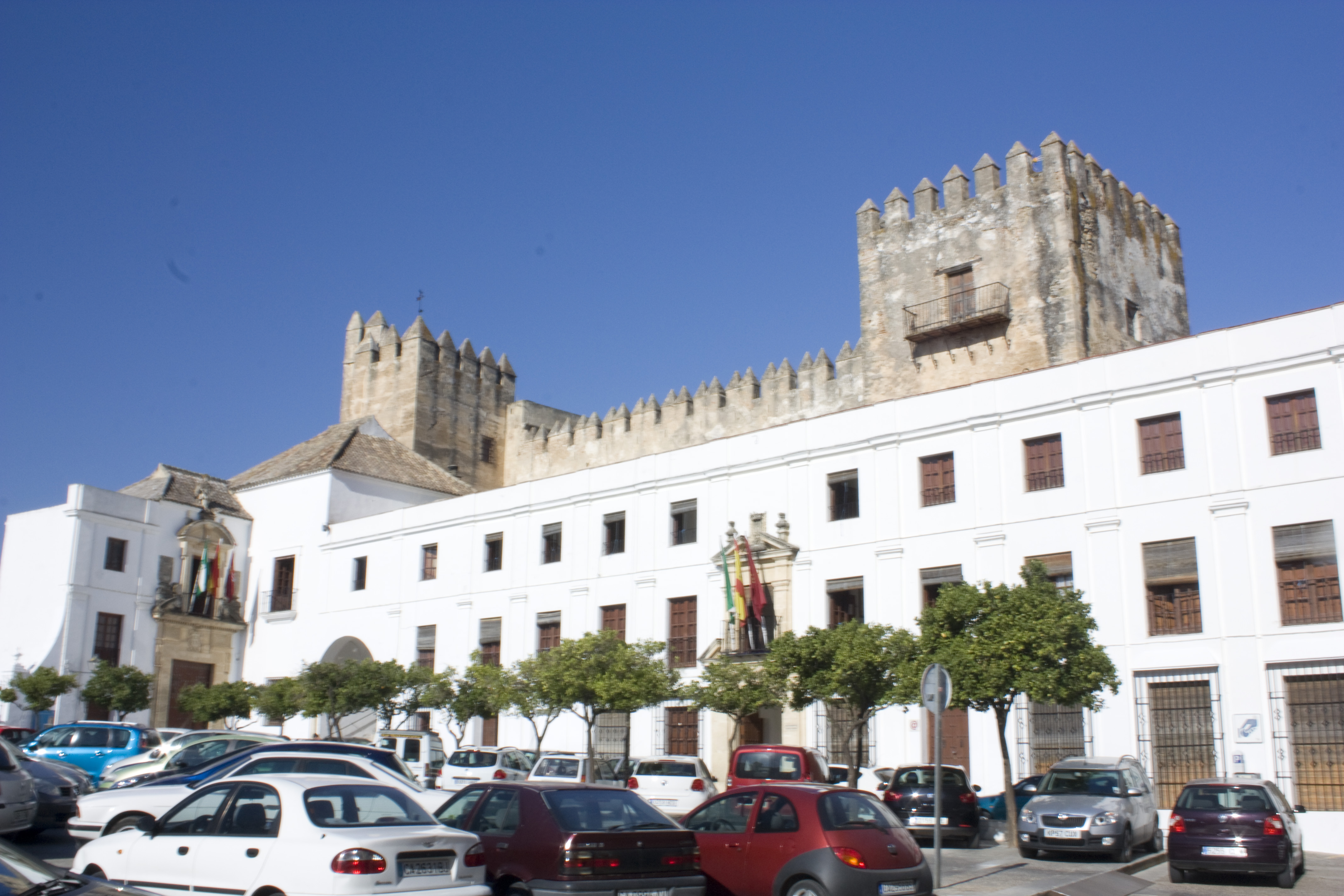 The ducal castle (14th and 15th centuries) seen from the Plaza del Cabildo. Built on the ramparts, it is only visible from the Parador to which it belongs.